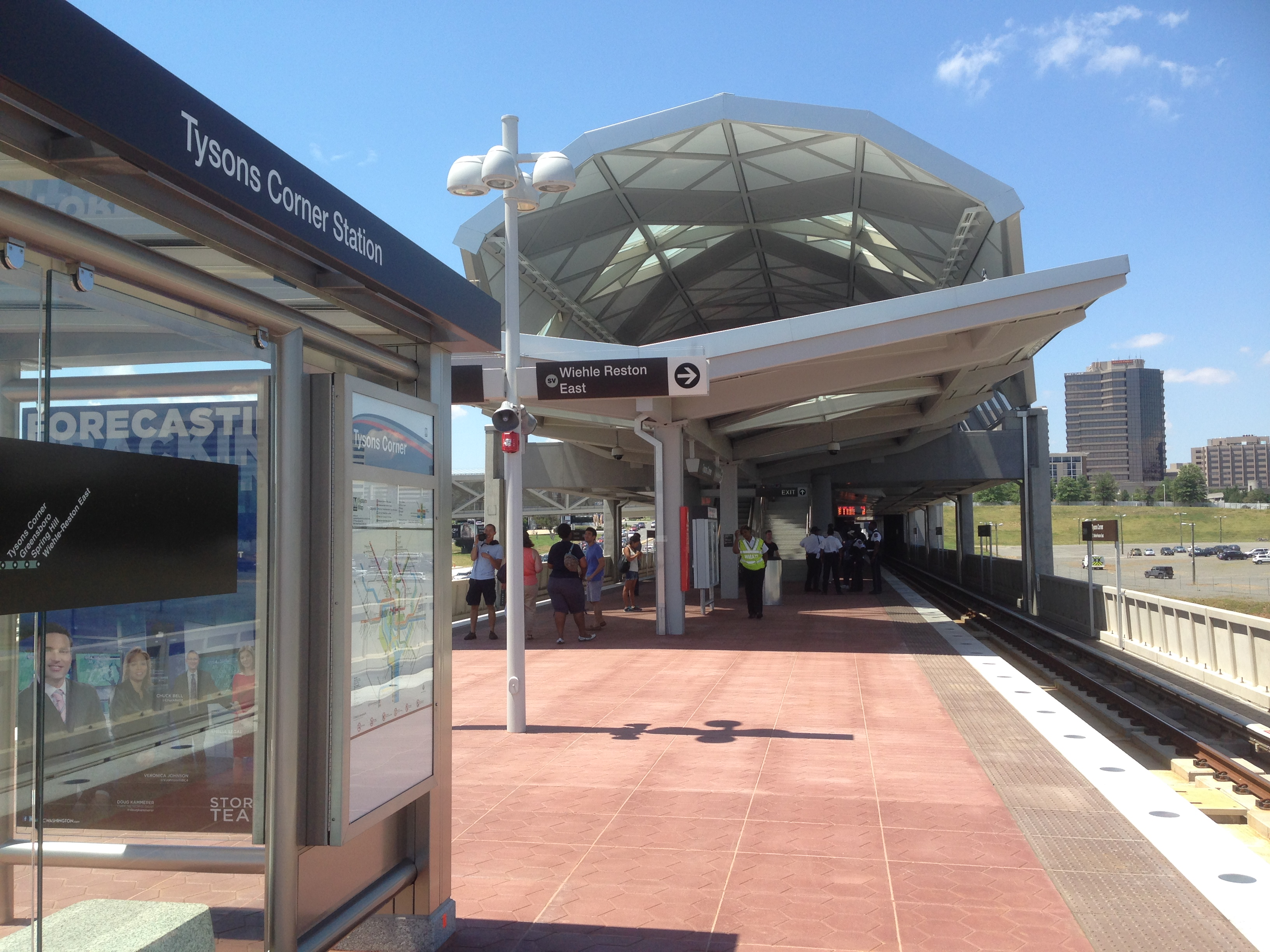 Platform of the Tysons Corner WMATA station on its first day of operation